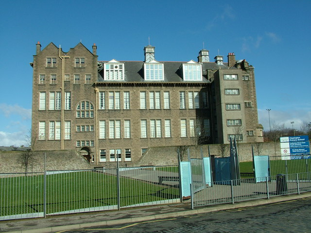 Clepington Primary School Clepington Primary School.